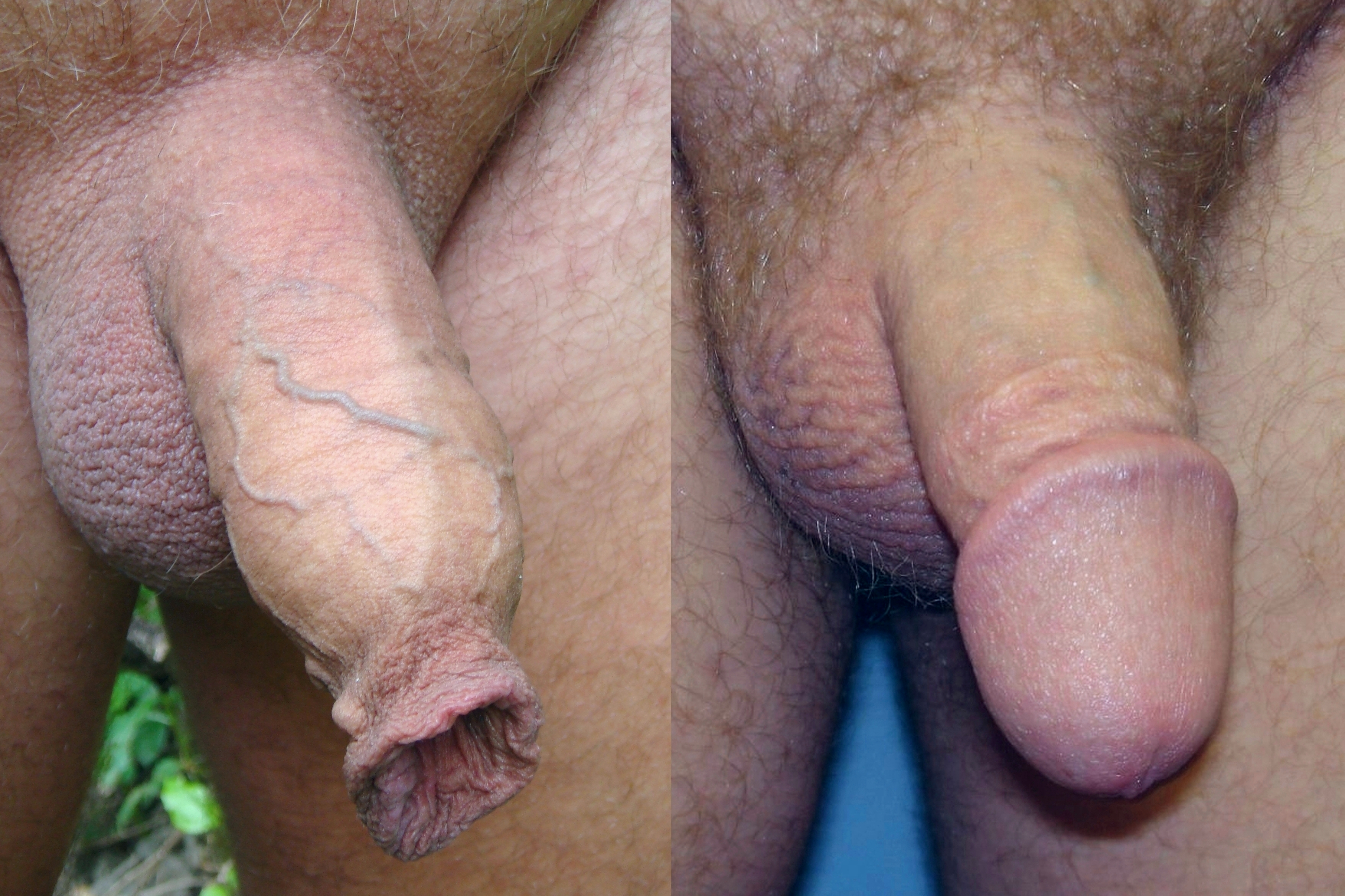 Circumcision, before and after